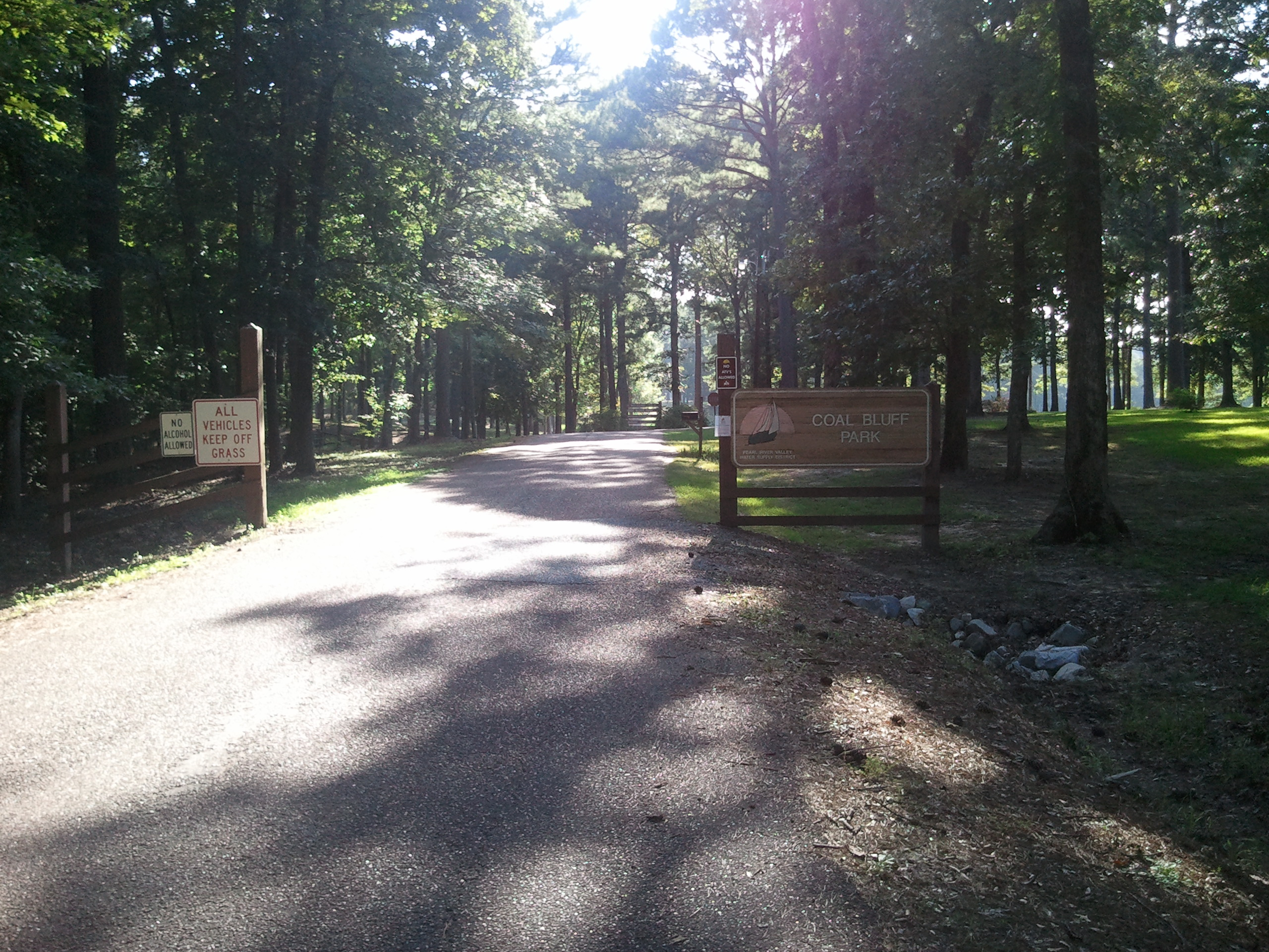 Wide view of the entrance to Coal Bluff Campground and Park.